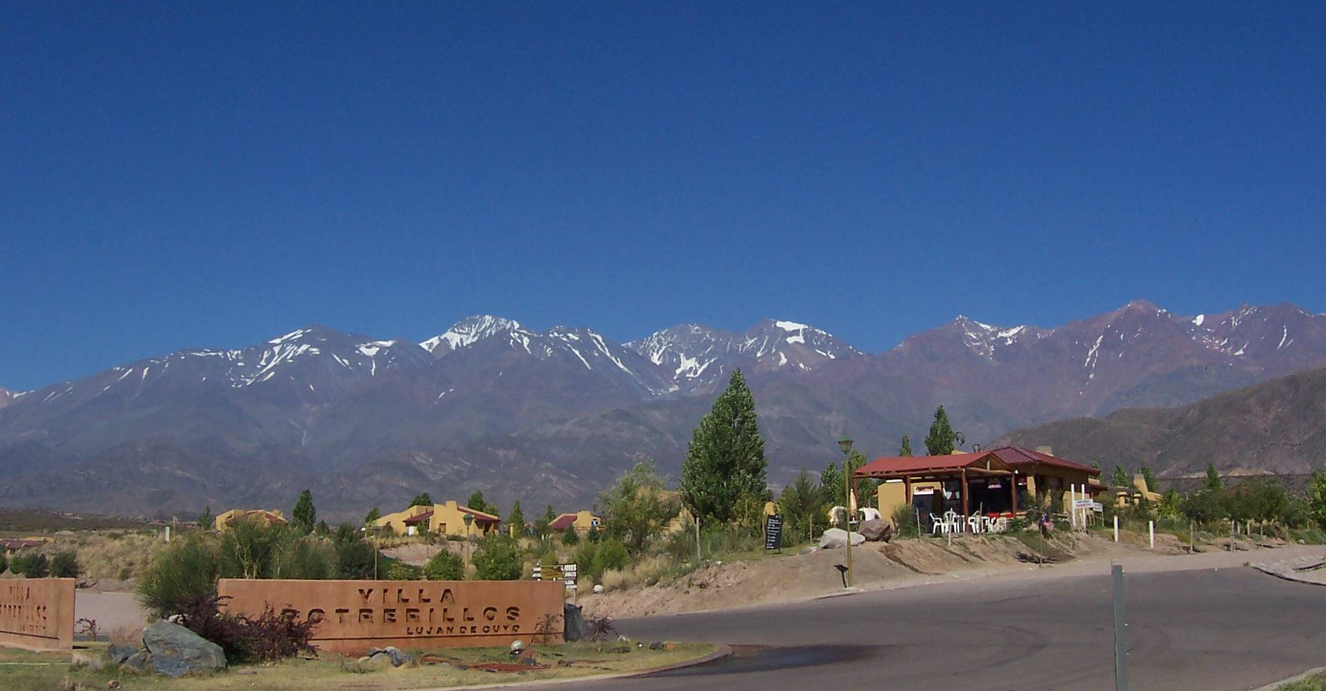 Villa Potrerillos, north of Mendoza, capital of the province of Mendoza, Argentina. The town is located over 1,350 m (4,430 ft) above sea level, on the foothills of the Andes.